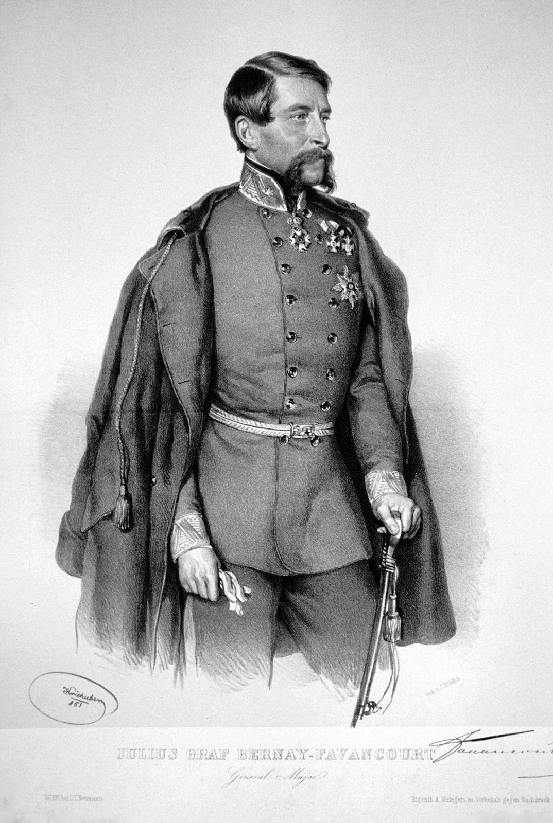 Julius Josef Graf Bernay-Favancourt (1804-1880) Generalmajor, Ritter des Maria-Theresien-Ordens.